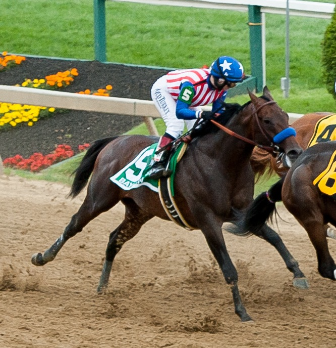 First time past the stands at 139th Preakness Stakes. by Jay Baker at Baltimore, MD.